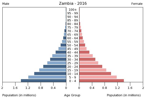 The population pyramid of Zambia illustrates the age and sex structure of population and may provide insights about political and social stability, as well as economic development. The population is distributed along the horizontal axis, with males shown on the left and females on the right. The male and female populations are broken down into 5-year age groups represented as horizontal bars along the vertical axis, with the youngest age groups at the bottom and the oldest at the top. The shape of the population pyramid gradually evolves over time based on fertility, mortality, and international migration trends.